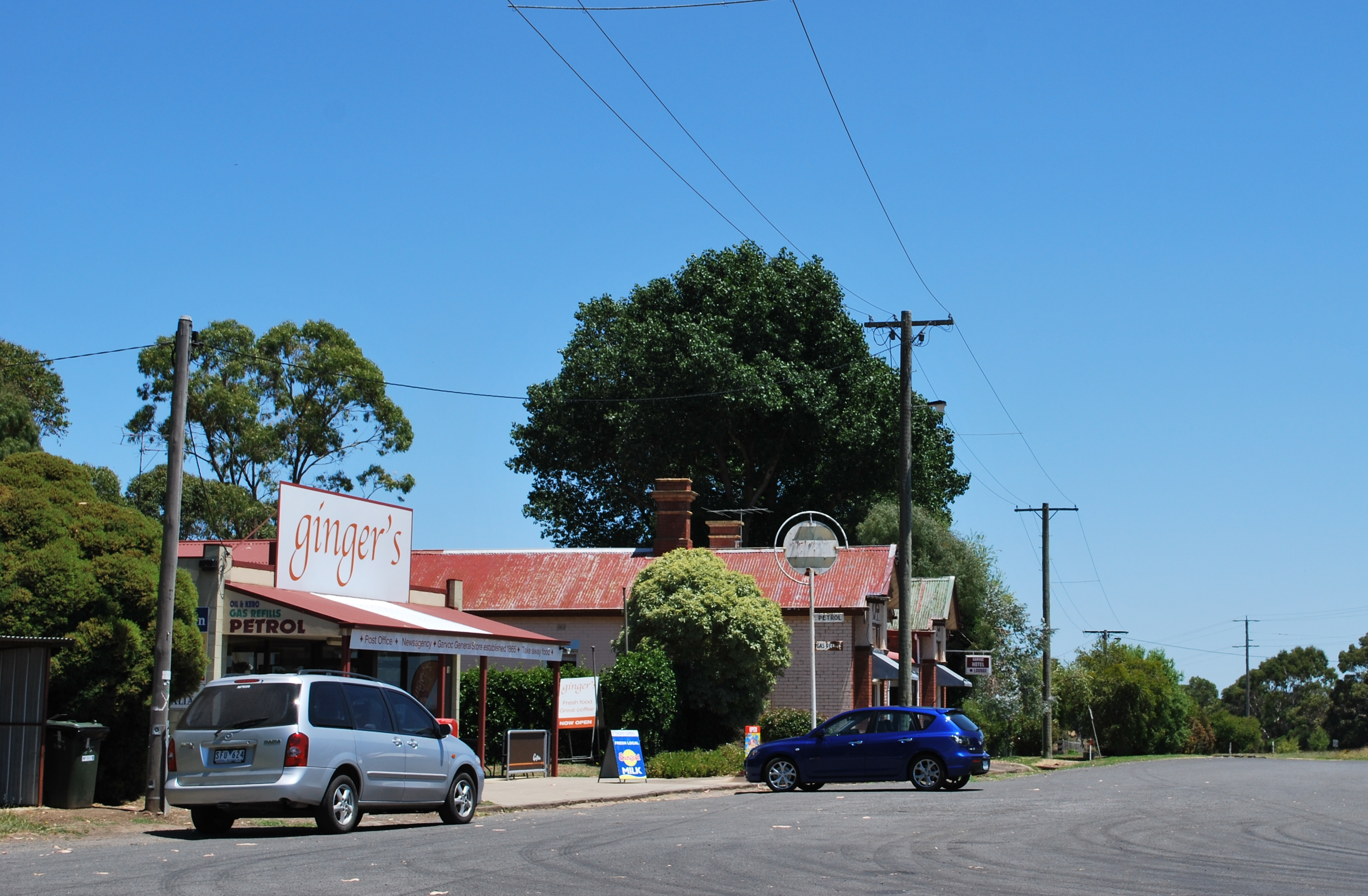 The commercial centre of Garvoc, Victoria, featuring the general store and (former?) pub